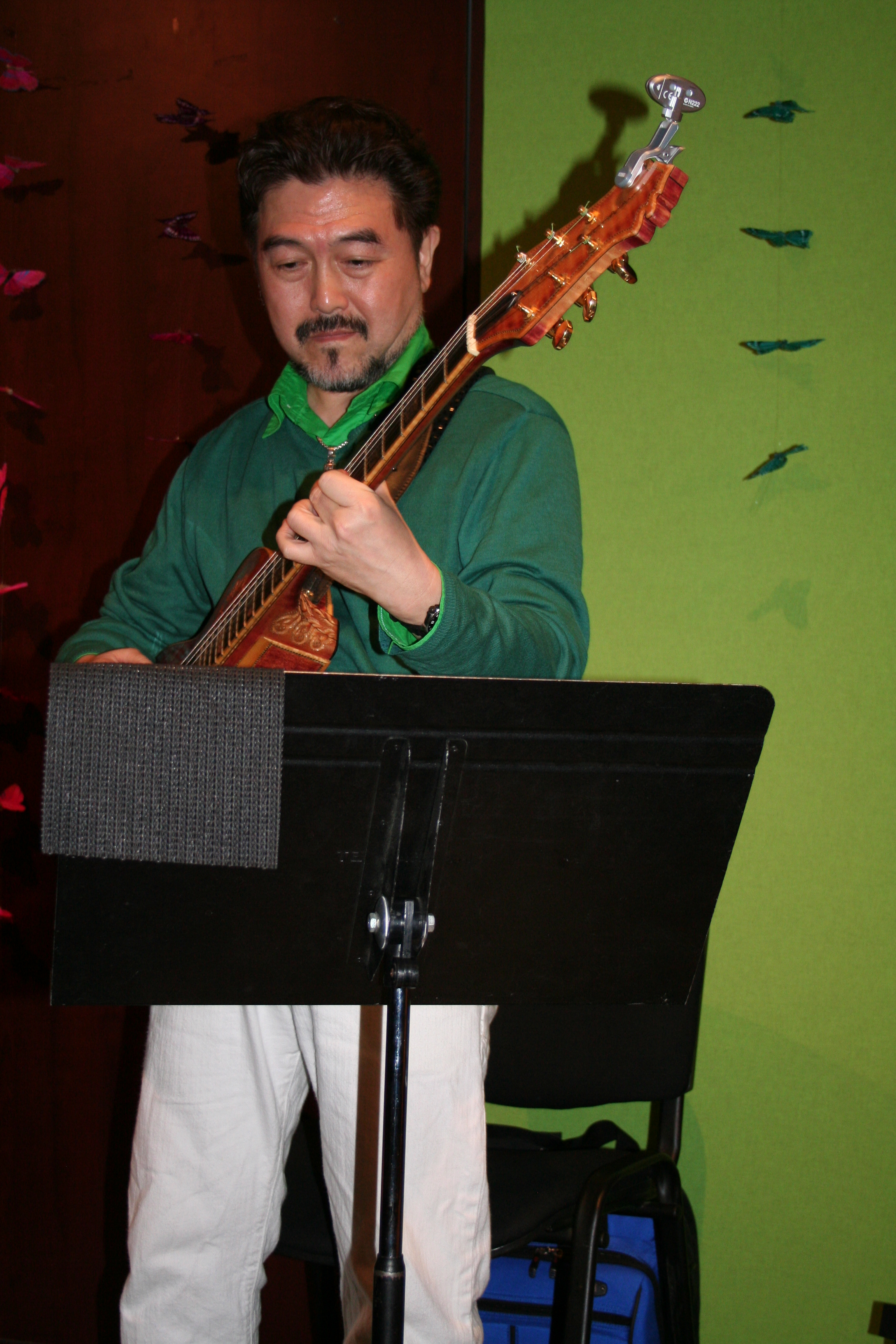 Show-case with Anne Ducros, Olivier Hutman and Kazumi Watanabe at Fnac Italie (Paris, France).